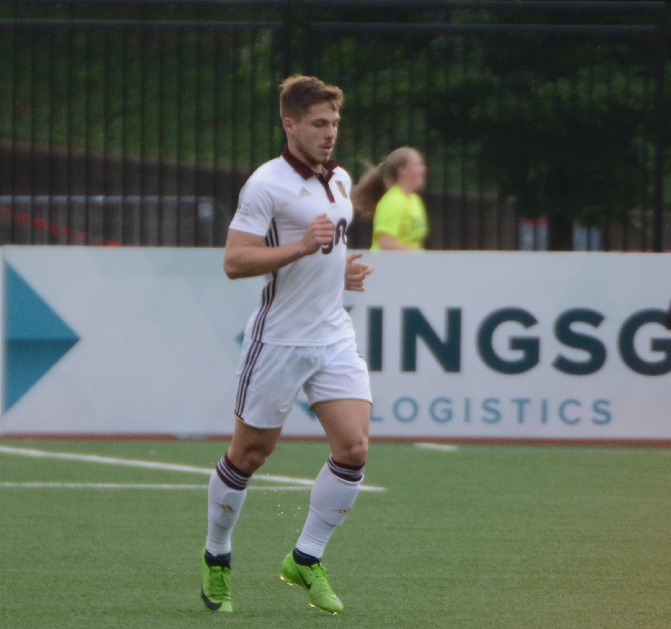 Playing for DCFC